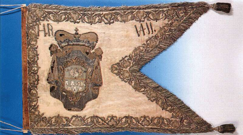 A 11. Székely Határőr huszárezred zászlaja, 1765 körül